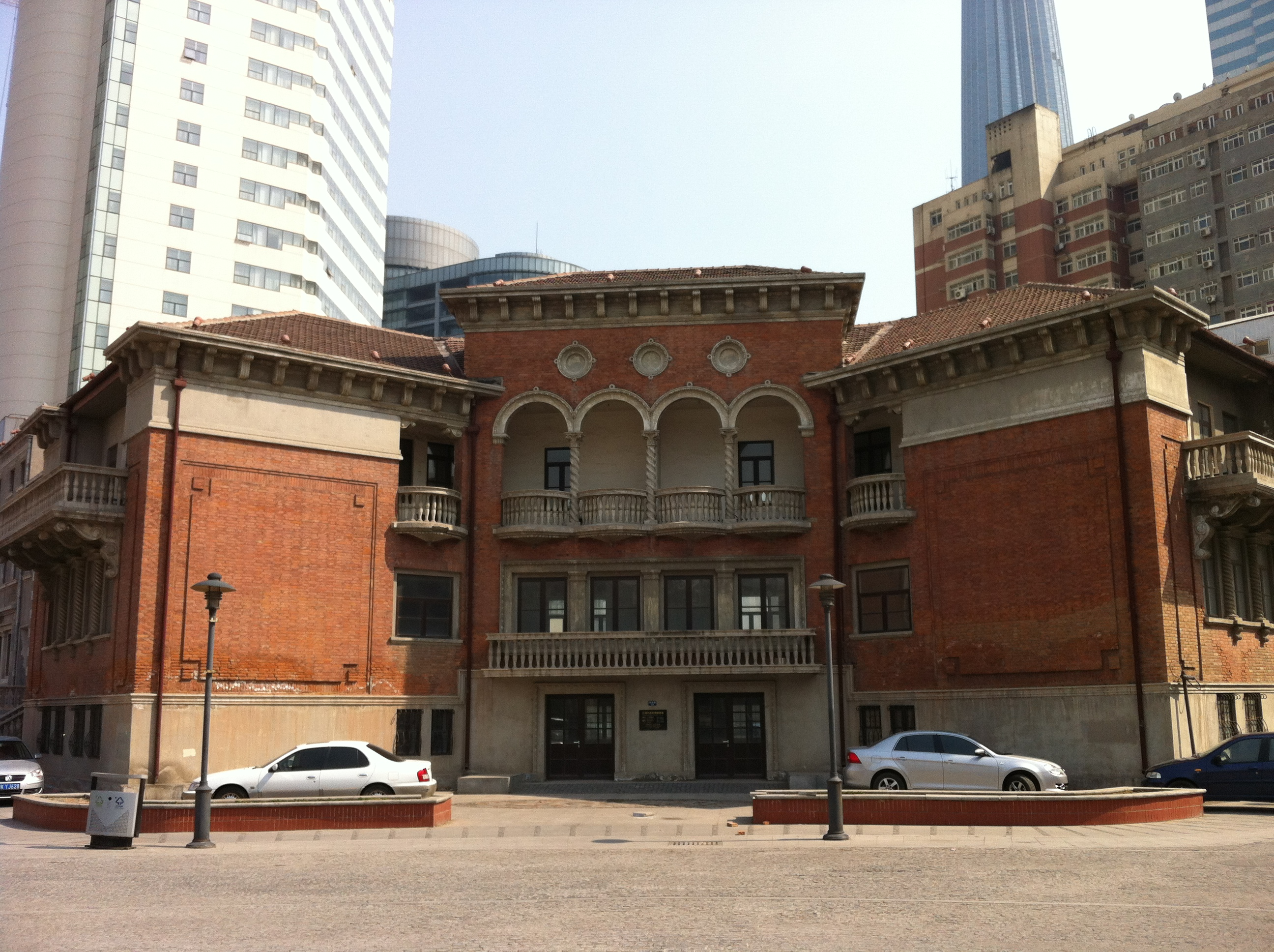 Minsheng Lu No. 69 & Ziyou Dao No. 17–21